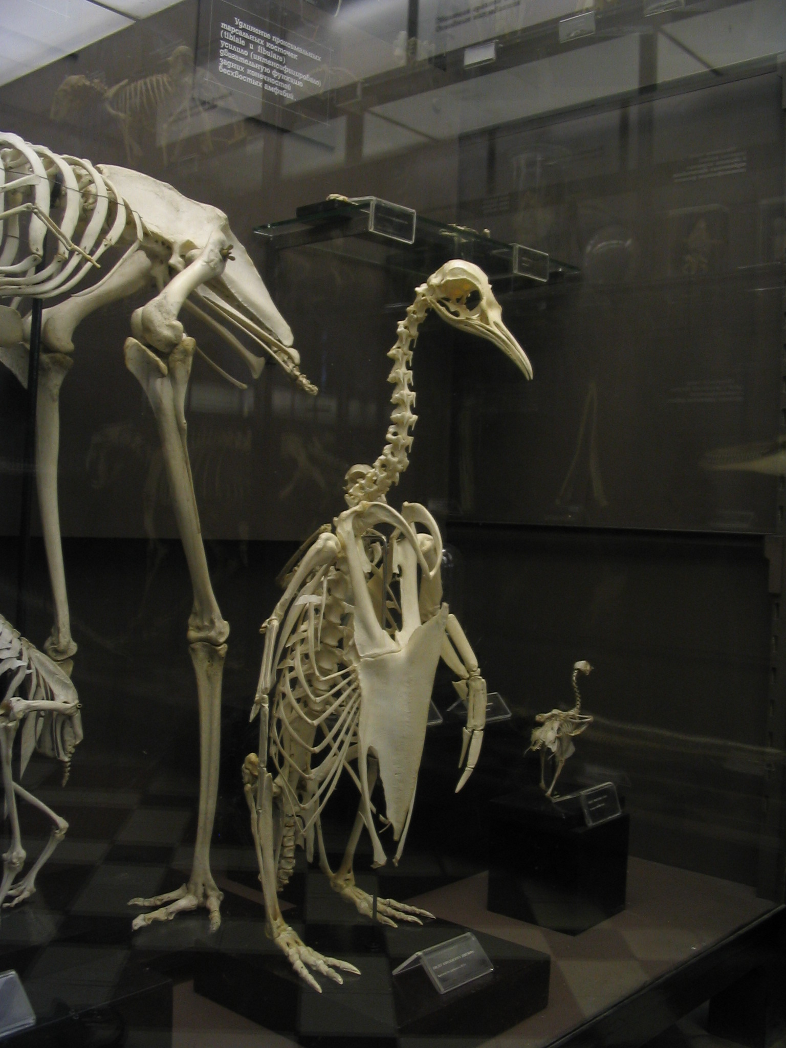 A Skeleton of a Penguin from the Moscow Museum of Natural History "Bolshaya Nikitskaya Street"